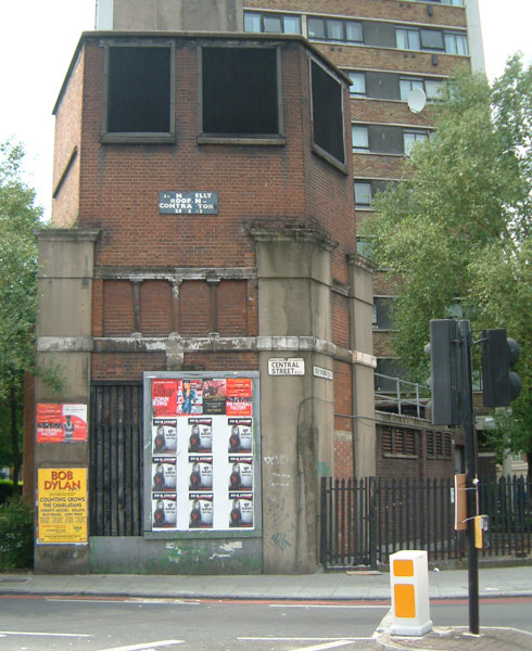 City Road tube station, remnant, photo by Nevilley, 28/5/04. Note how the later brick ventilation tower is built into and through the remains of an older building with little classical touches - these are remnants of the original station building, as can be seen in old pictures of it. This is at the junction of City Road with Central Street.